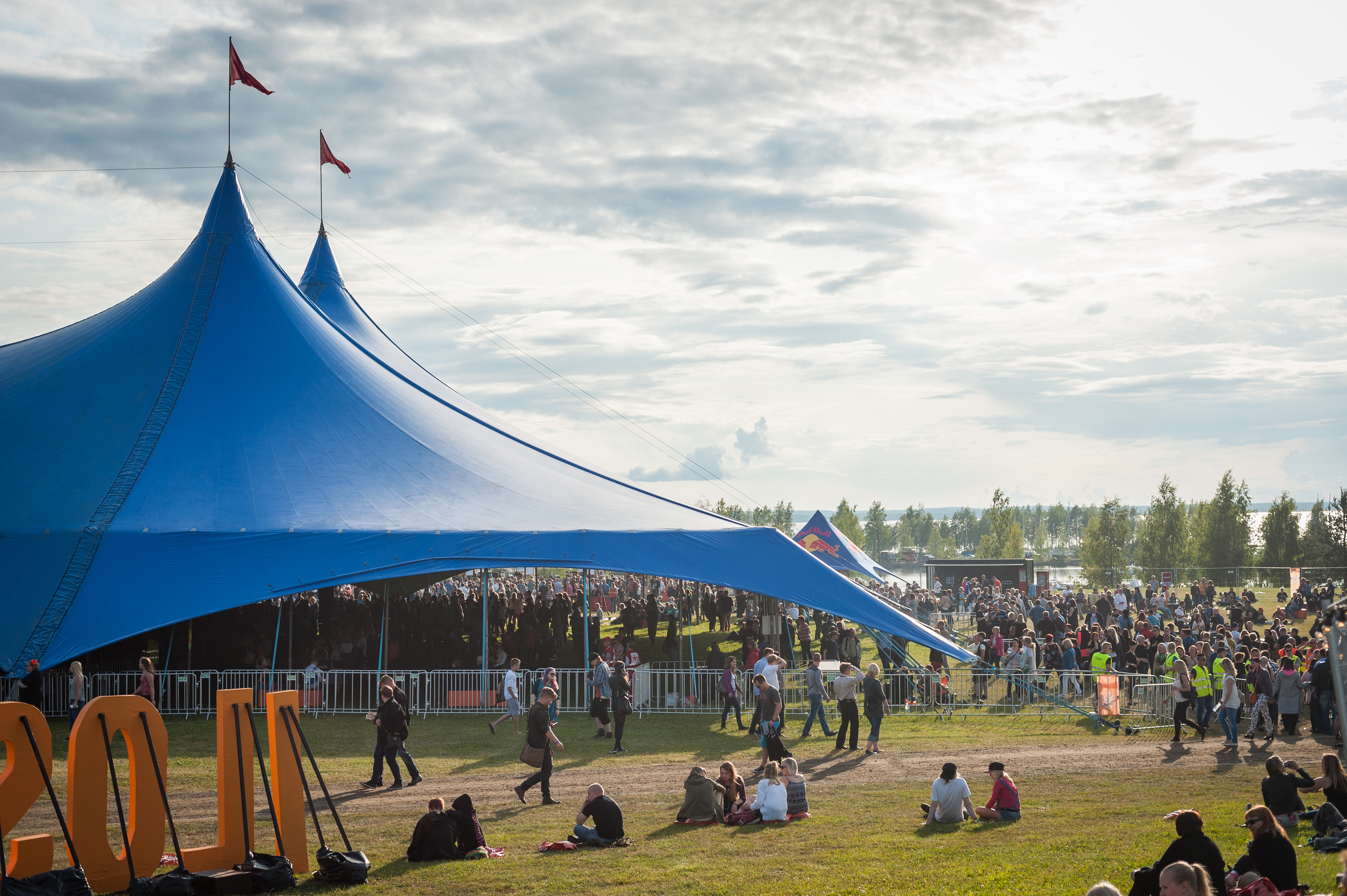 The 2015 Ilosaarirock festival in Joensuu, Finland.